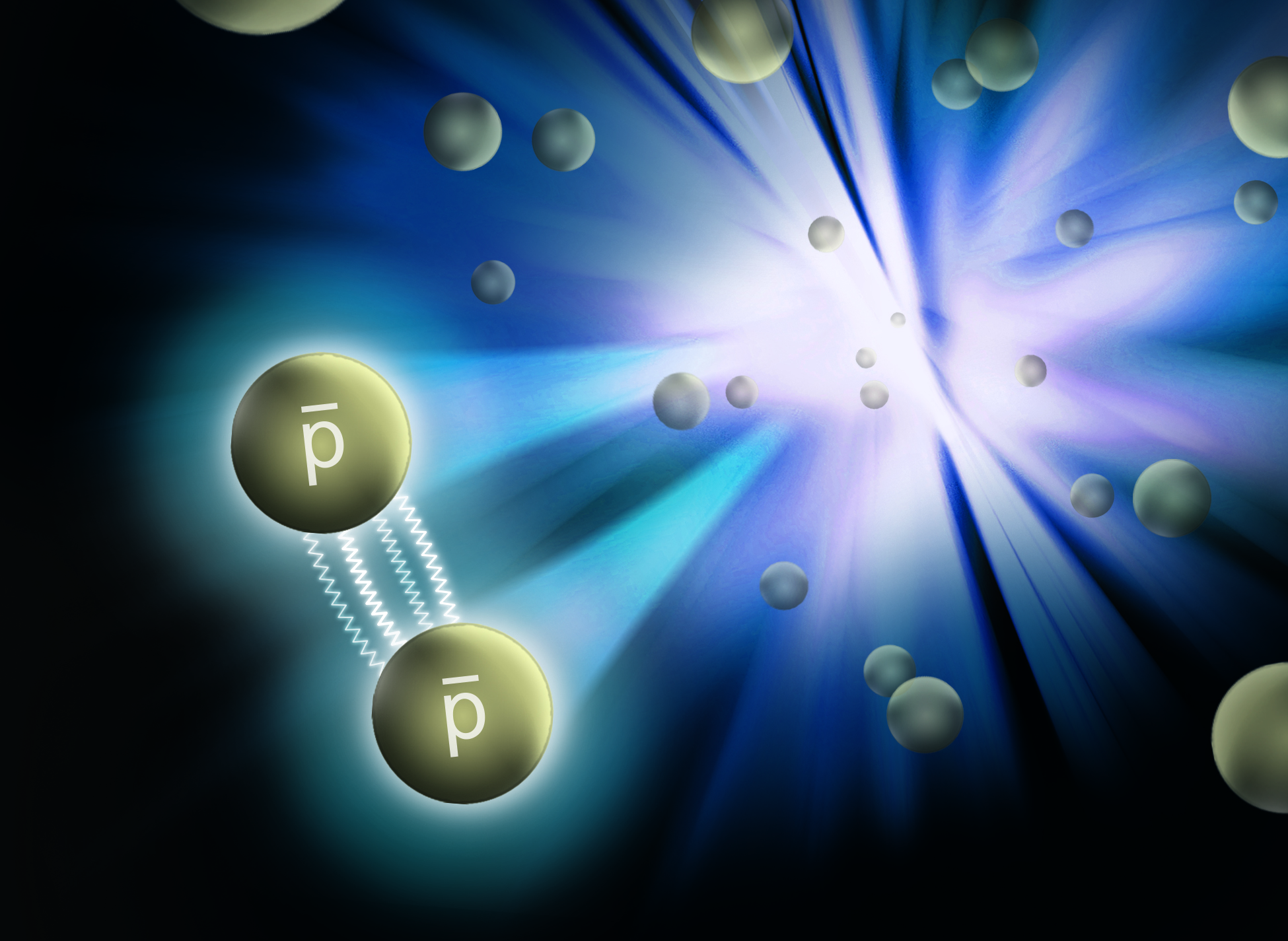 Interaction between antiprotons.